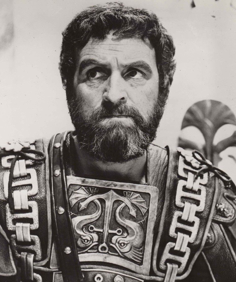 Andrew Keir in Cleopatra - publicity still (cropped)